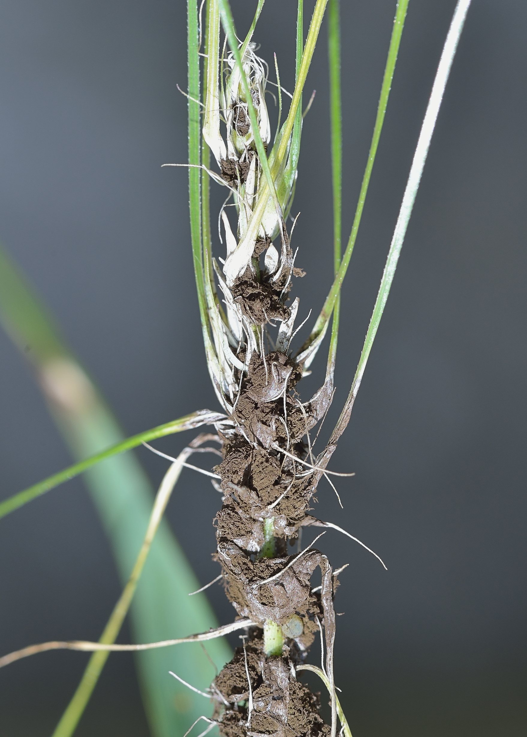 Ustilago nuda at winterbarley